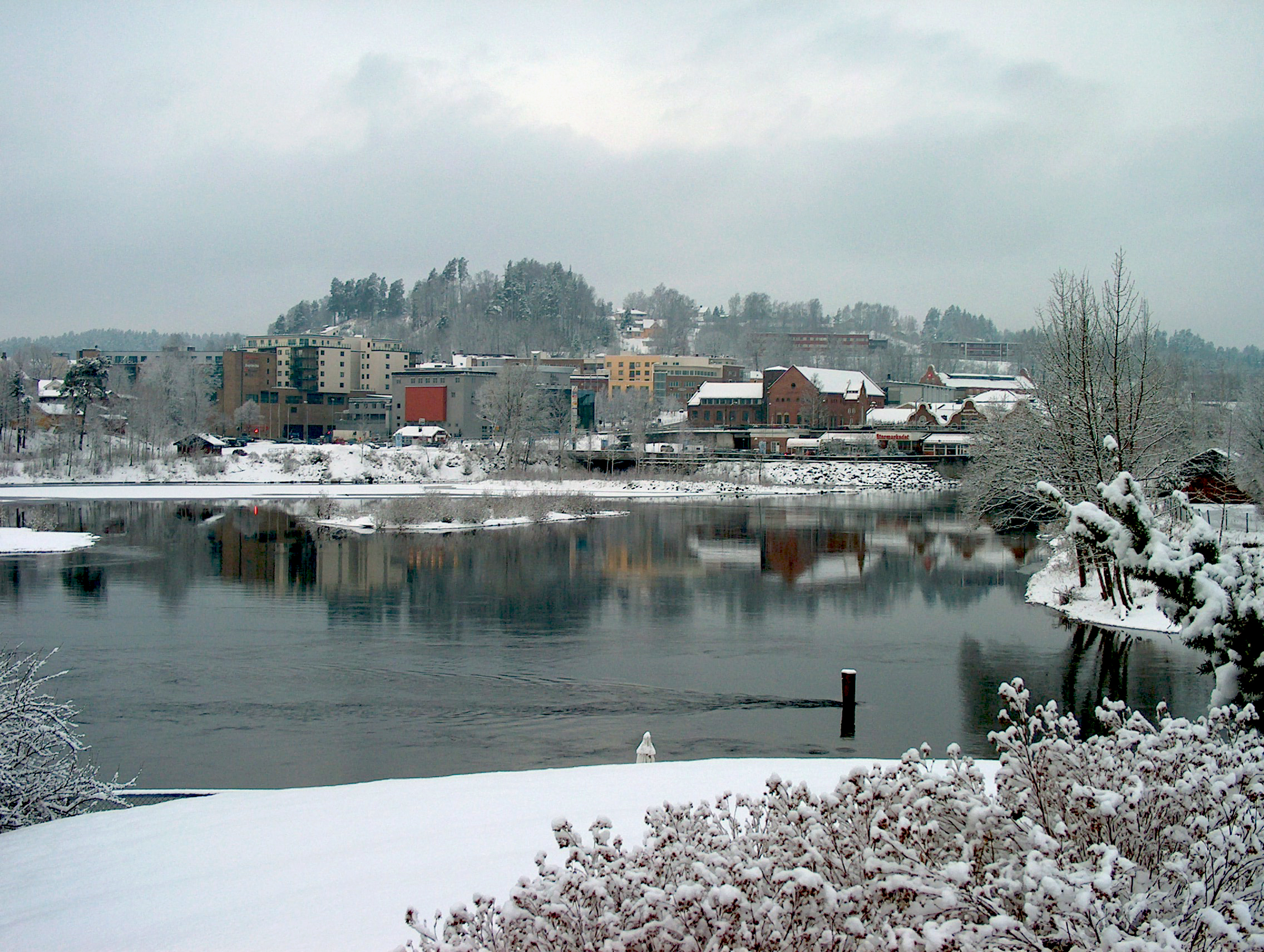 The City Bridge and Southern Hønefoss